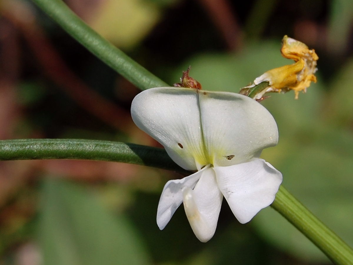 Cowpea Vigna unguiculata cultigroup Unguiculata, planted in Lumajang, East Java, Indonesia. Flower close up.